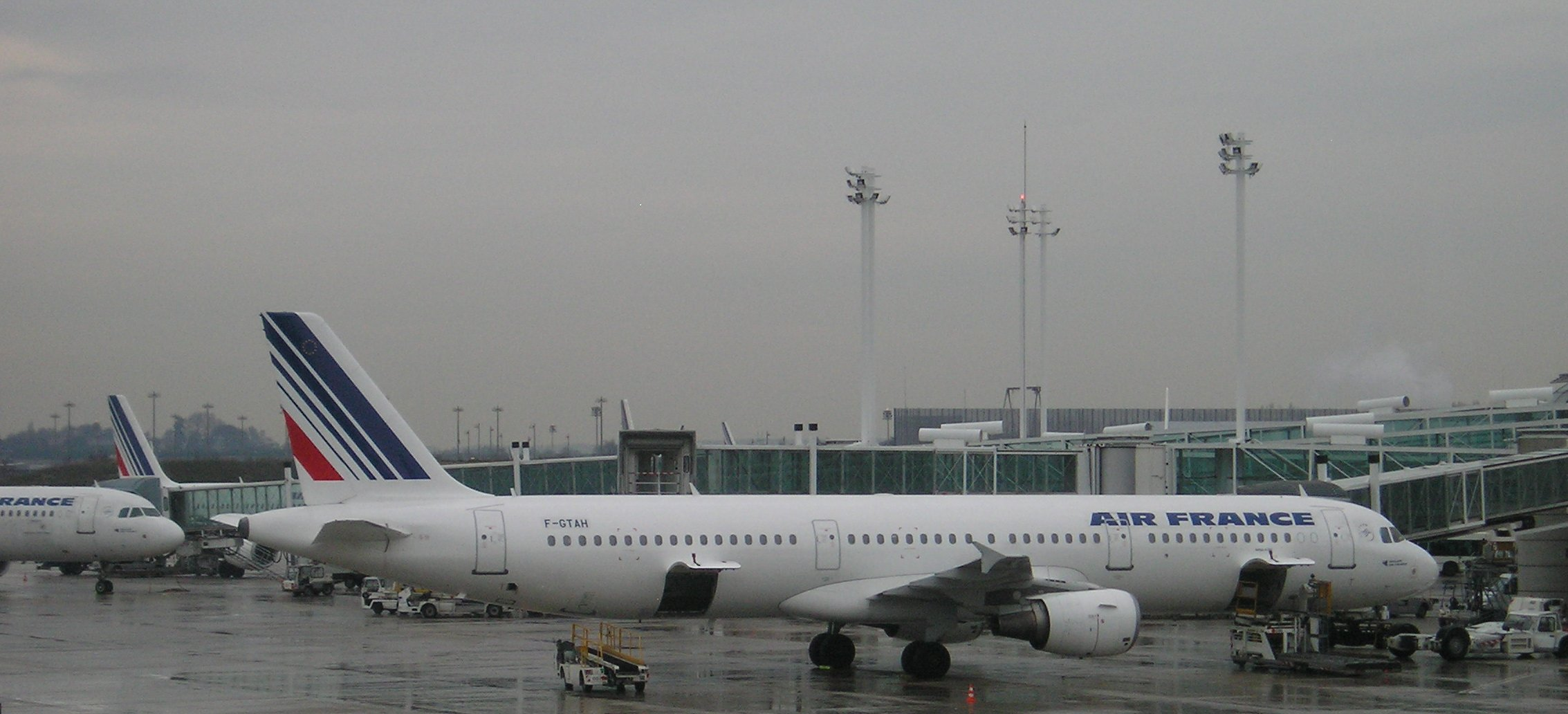 AIR FRANCE A321, Pic taken @ Paris-CDG Airport